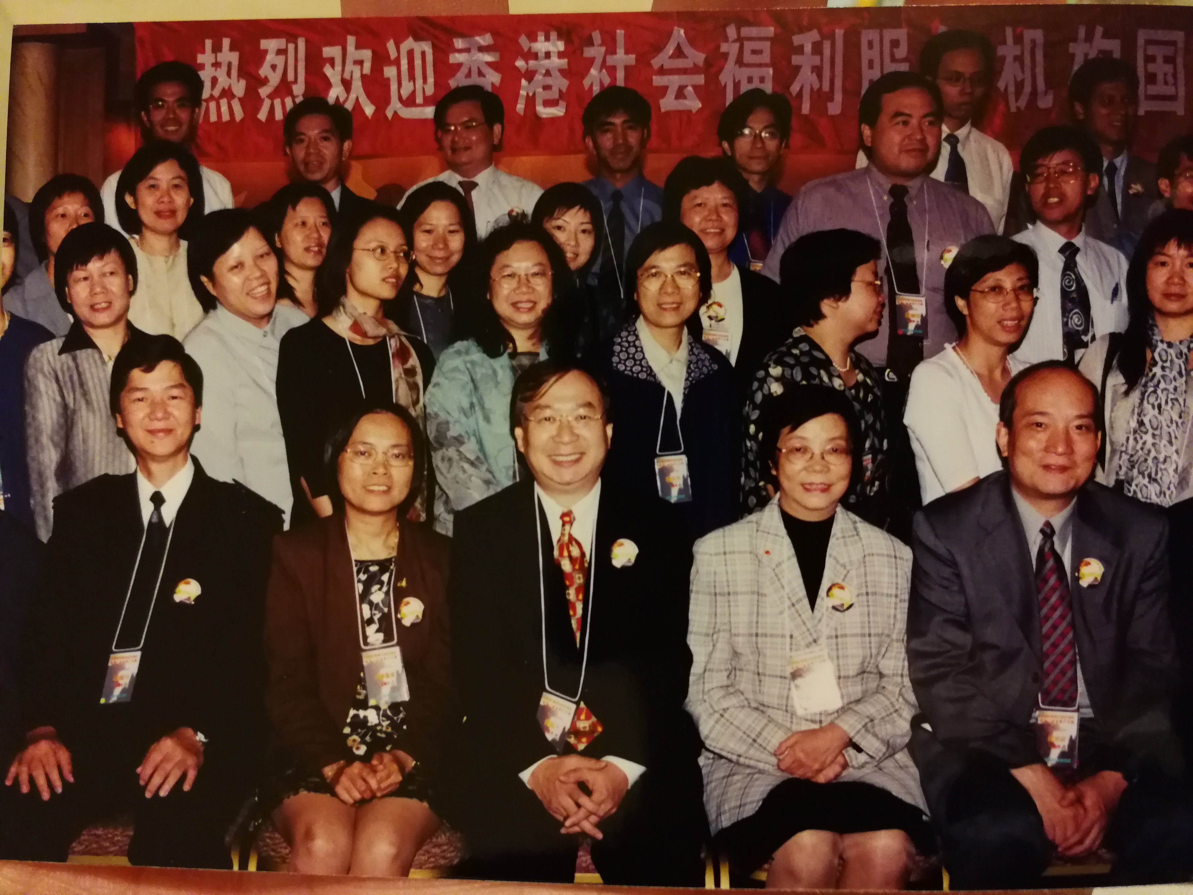 James Ling (1st Row, 1st from Right) with the Hong Kong Social Service Delegation visiting China